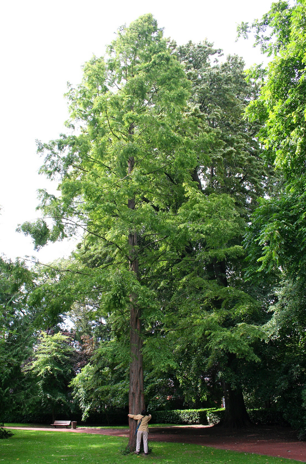 Dawn Redwood